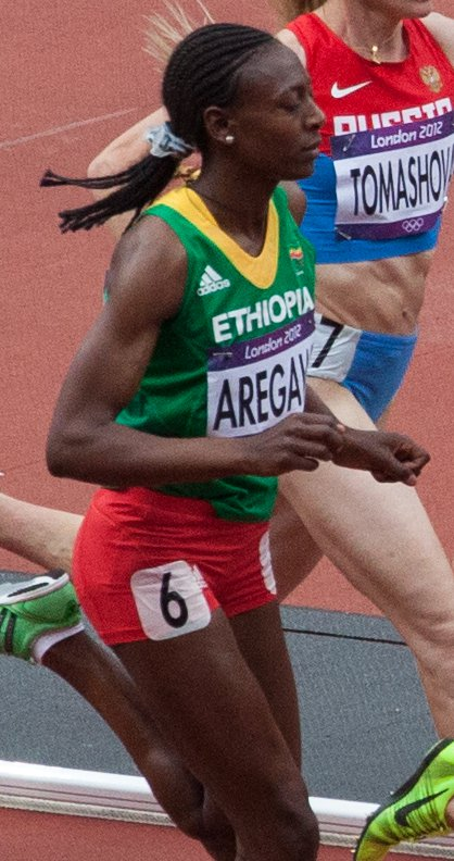 Olympic Stadium, 6 August 2012, London Olympic Games, Women's 1,500 metres heats, Abeba_Aregawi